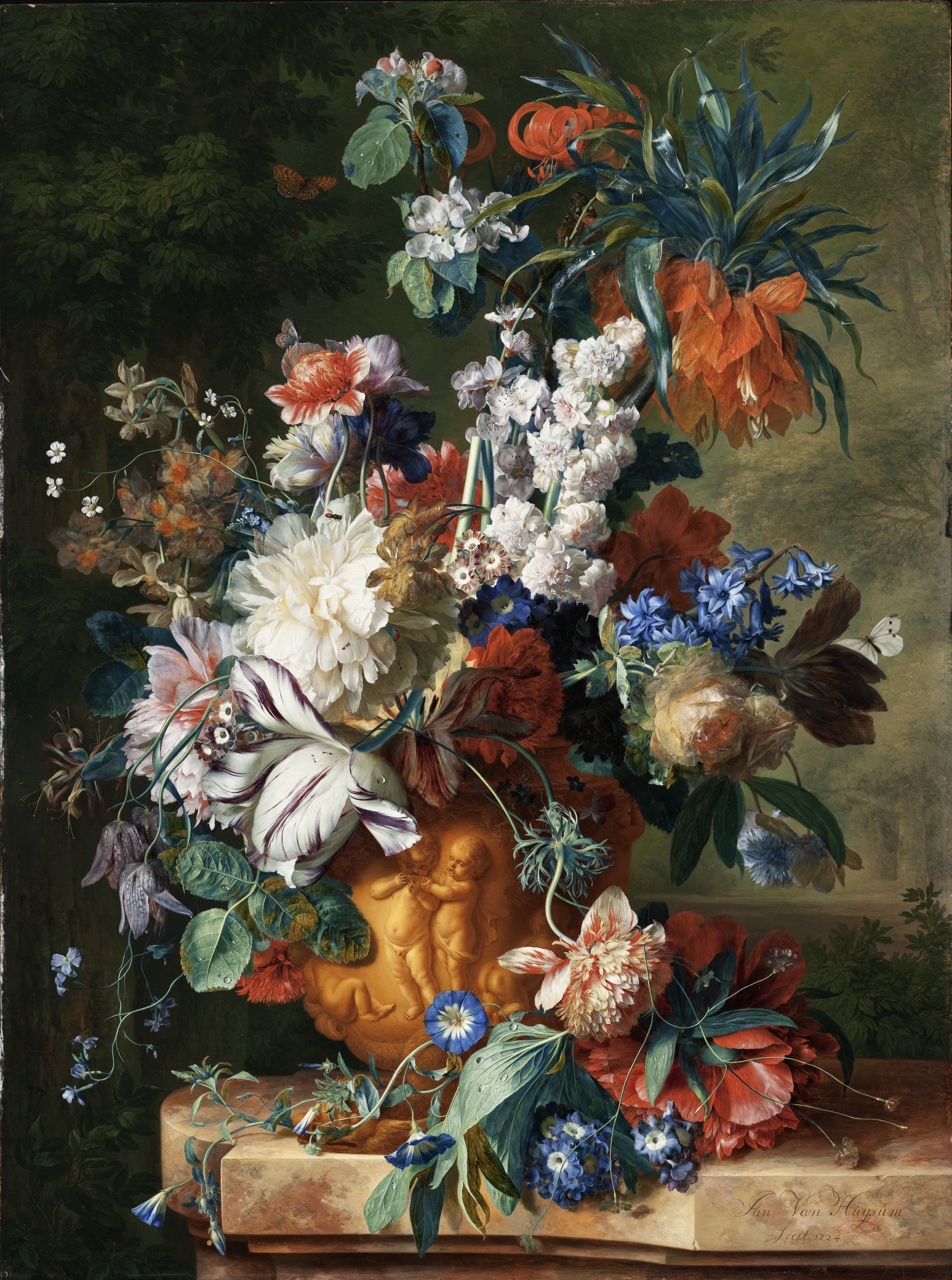 "Bouquet of Flowers in an Urn" by Jan van Huysum. Painted in 1724. Oil on canvas. Los Angeles County Museum of Art, Los Angeles